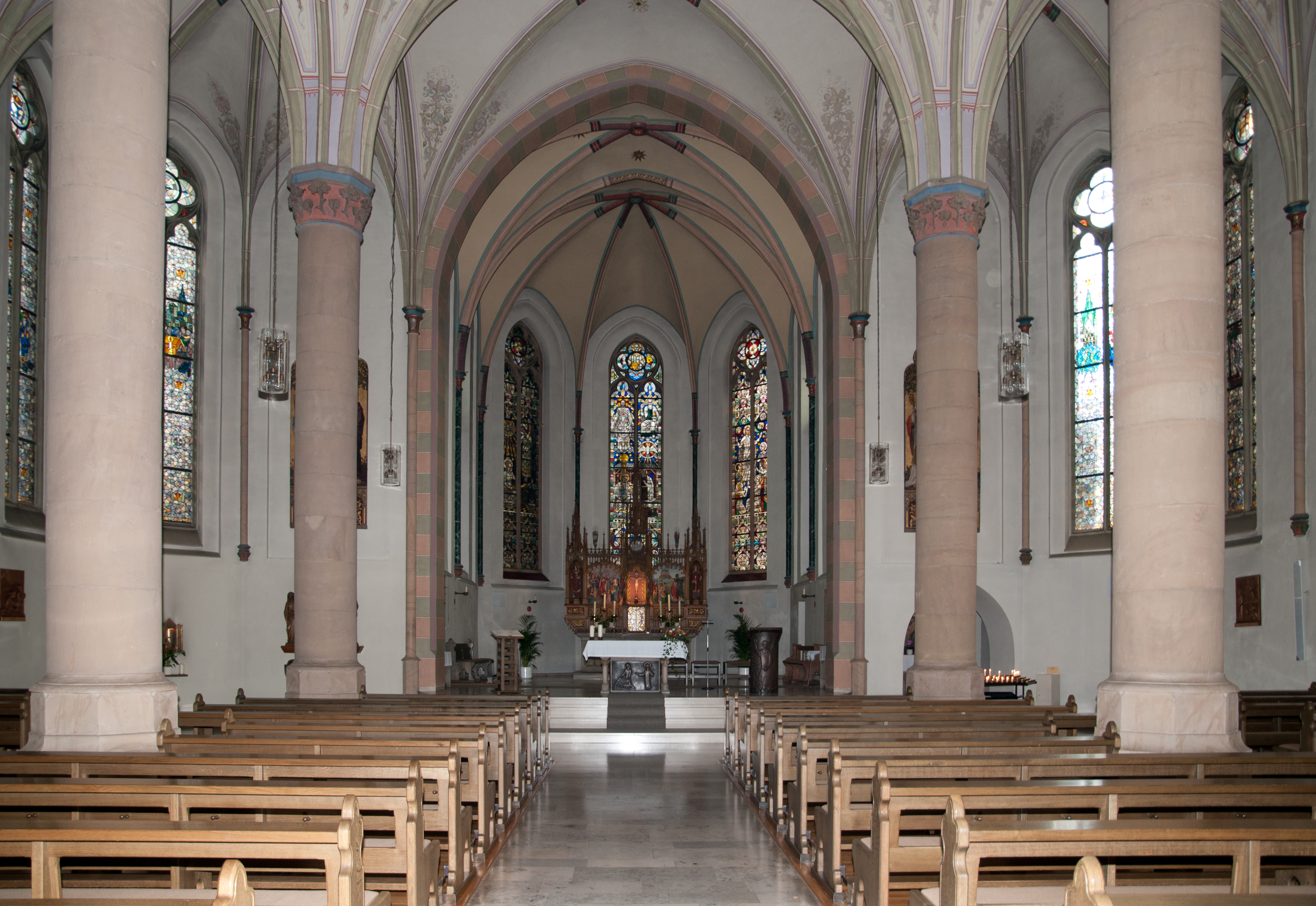 Hüsten - Church St. Petri, Inside